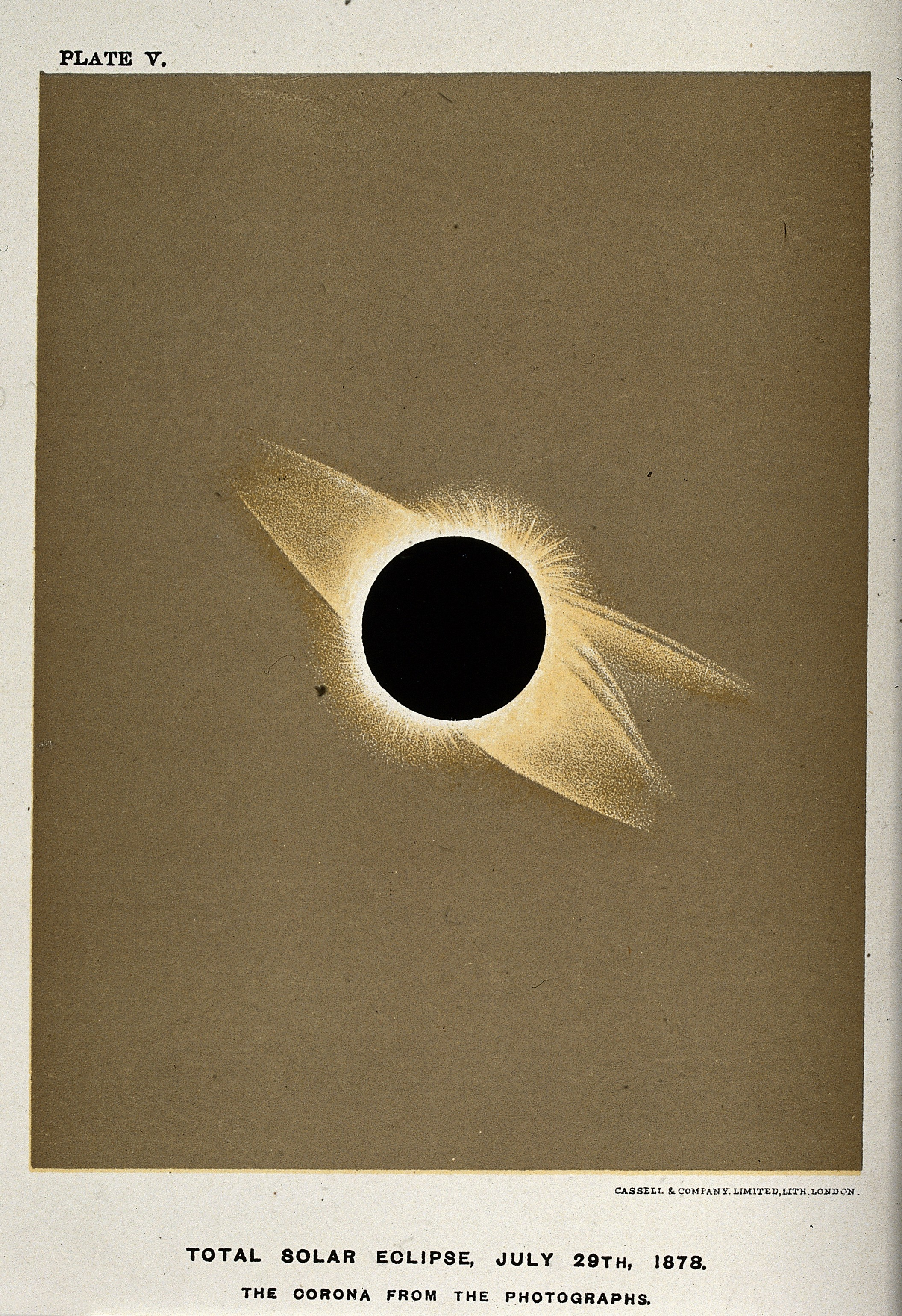 The corona of the sun, viewed during a total solar eclipse. Process print after a photograph, 1878. Iconographic Collections Keywords: SUN; Astronomy; eclipse; corona